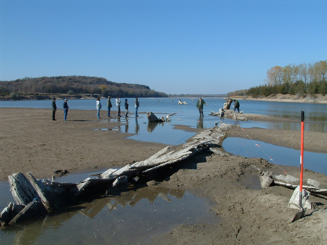 NPS employees talking to archeology students from the University of South Dakota